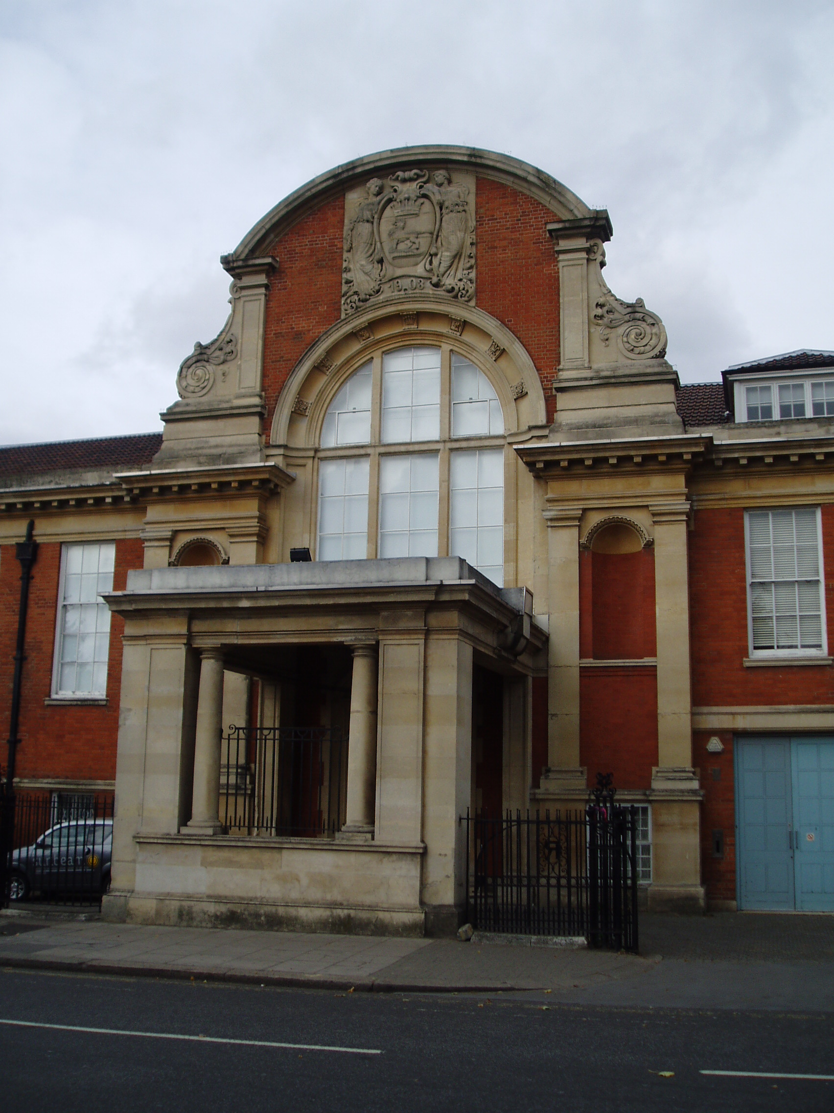 Clément-Talbot Works (1903-11) by William T Walker, North Kensington, London Photo taken on a walk around North Kensington with the Twenteith Century Society on 4th October 2008, led by Suzanne Waters.